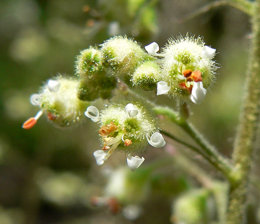 Photo of Heuchera maxima at the Regional Parks Botanic Garden, Berkeley, California